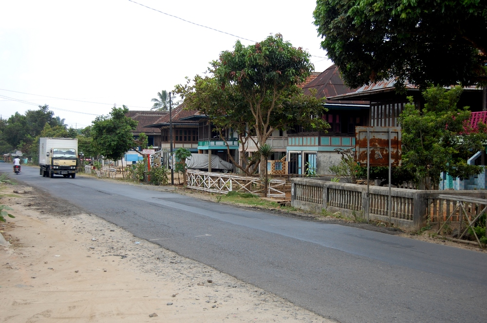 Way Tenong, a subdistrict village at West Lampung, Sumatra.